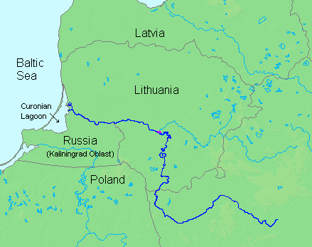 Map highlighting Neman River with English labels